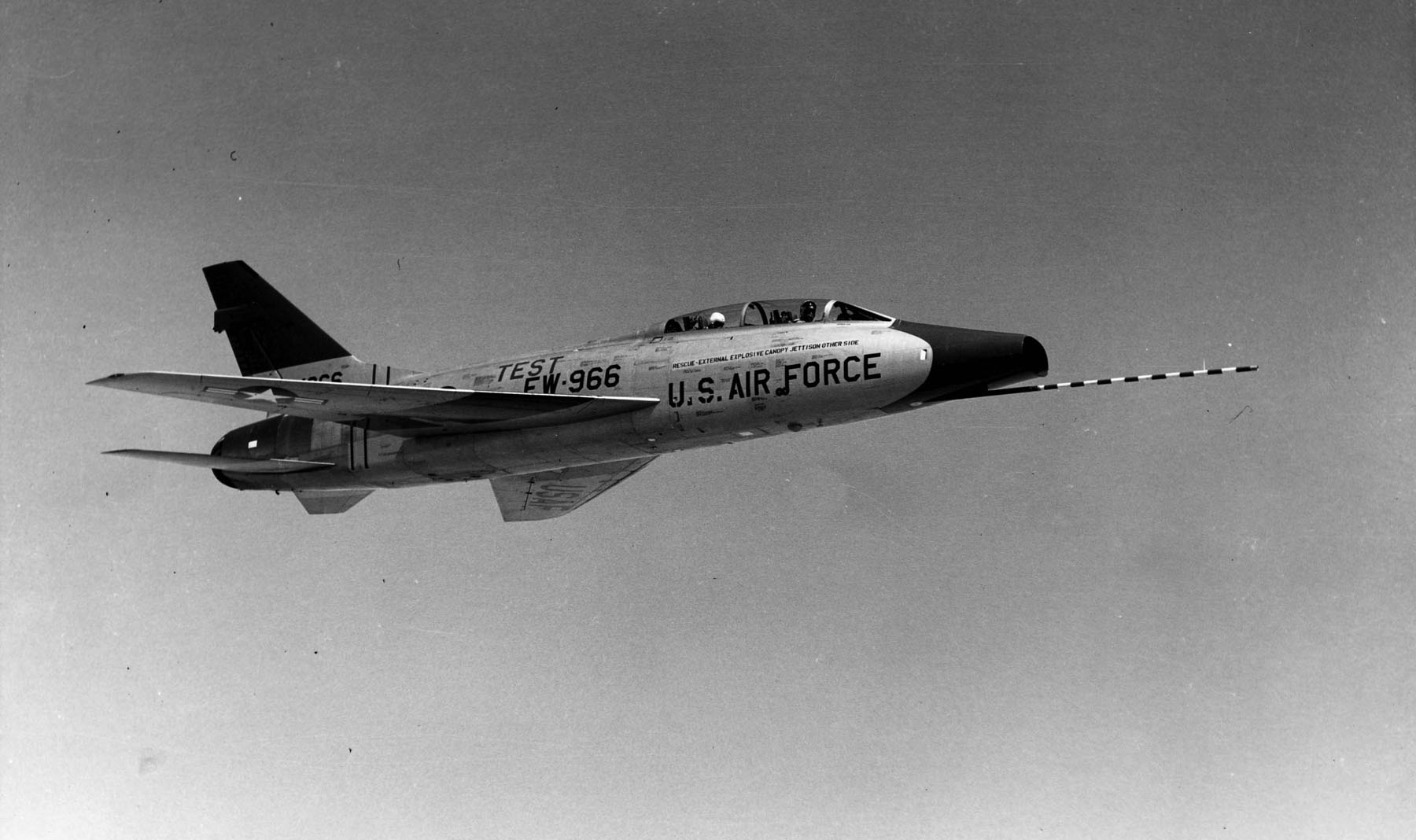 The sole U.S. Air Force North American TF-100C Super Sabre (s/n 54-1966) in flight. The TF-100C was a prototype of the two-seat trainer version of the F-100, developed by North American as a private venture. The TF-100C made its first flight on 17 January 1955. It suffered a serious failure that tore off part of the tail and part of the engine exhaust nozzle, causing it to break apart in midair on 9 April 1957, north-west of Kramer Junction, California (USA). The pilot, Robert Baker, ejected safely. 339 two-seat F-100Fs were built, based on the F-100D.